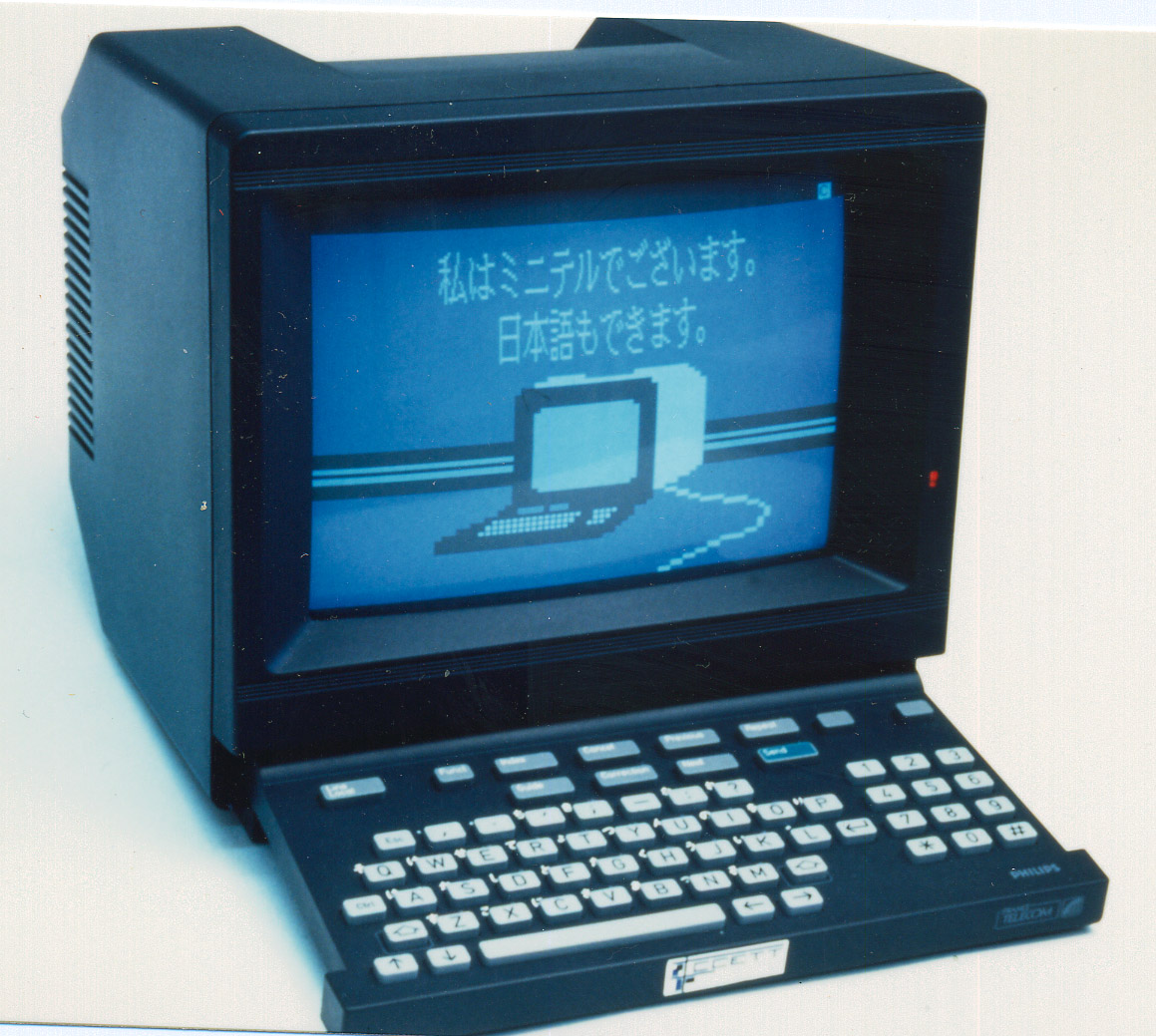 Minitel terminal in Japanese